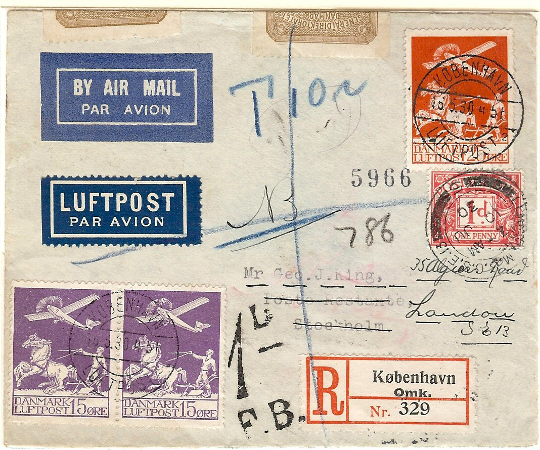 Scan of 1930 airmail cover from Denmark to England